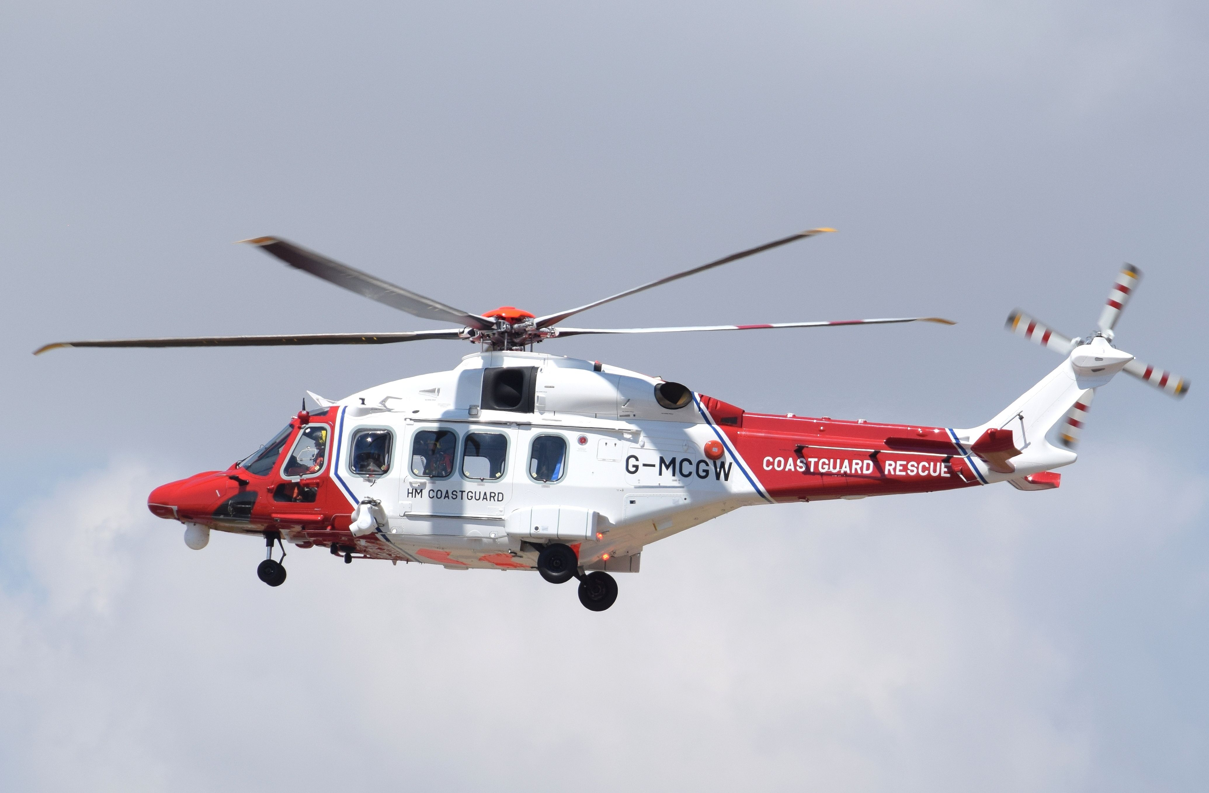 AgustaWestland AW189 helicopter (G-MCGW) of the UK Coastguard arrives at the 2018 Royal International Air Tattoo, RAF Fairford, England. Information: In 2013, Bristow Helicopters Limited won the UK Government national contract to deliver search and rescue operations on behalf of the Maritime and Coastguard Agency (MCA). Bristow Helicopters took over the helicopter civilian Search & Rescue responsibility from the Royal Air Force and Royal Navy in a phased approach throughout 2015 and 2016. Bristow now operates from 10 coastguard helicopter bases around the UK on behalf of Her Majesty’s Coastguard to respond to all SAR incidents for the whole of the UK.